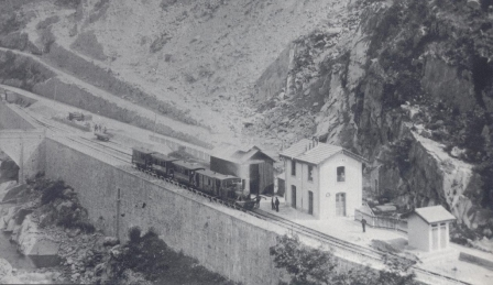 Balma.jpg